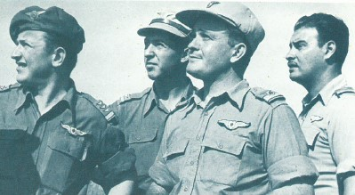 Sam Feldman and other commanders in the Israei airforce